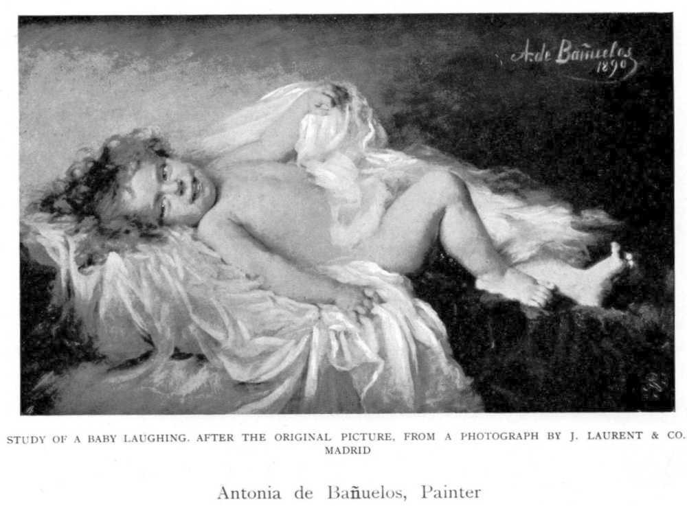 1905 print after page of Women painters of the world, from the time of Caterina Vigri, 1413-1463, to Rosa Bonheur and the present day, by Walter Shaw Sparrow, The Art and Life Library, Hodder & Stoughton, 27 Paternoster Row, London